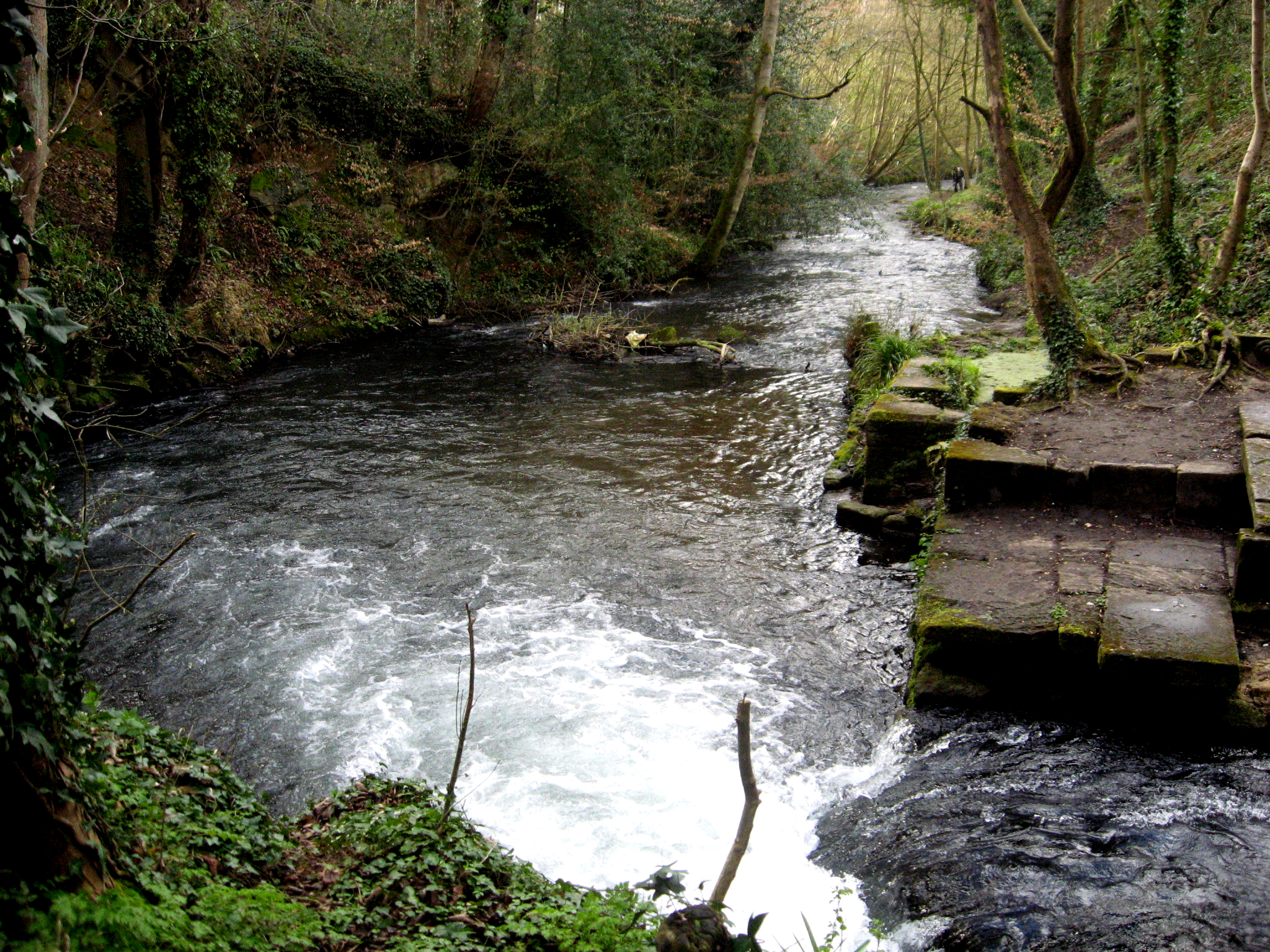 River Frome at Stroud, Gloucestershire (This section is across Dr Newton's Way, opposite Waitrose)